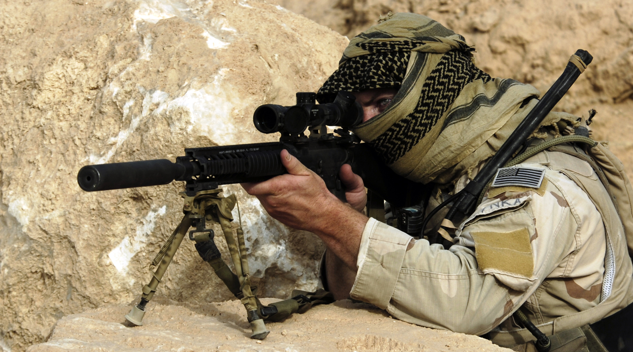 RAWAH, Iraq (Sept. 7, 2007) – A U.S. Special Forces Soldier conducts rehearsal, training and pre-operation conformation on the MK 12 sniper rifle. U.S. Navy photo by Mass Communication Specialist 2nd Class Eli J. Medellin (RELEASED)